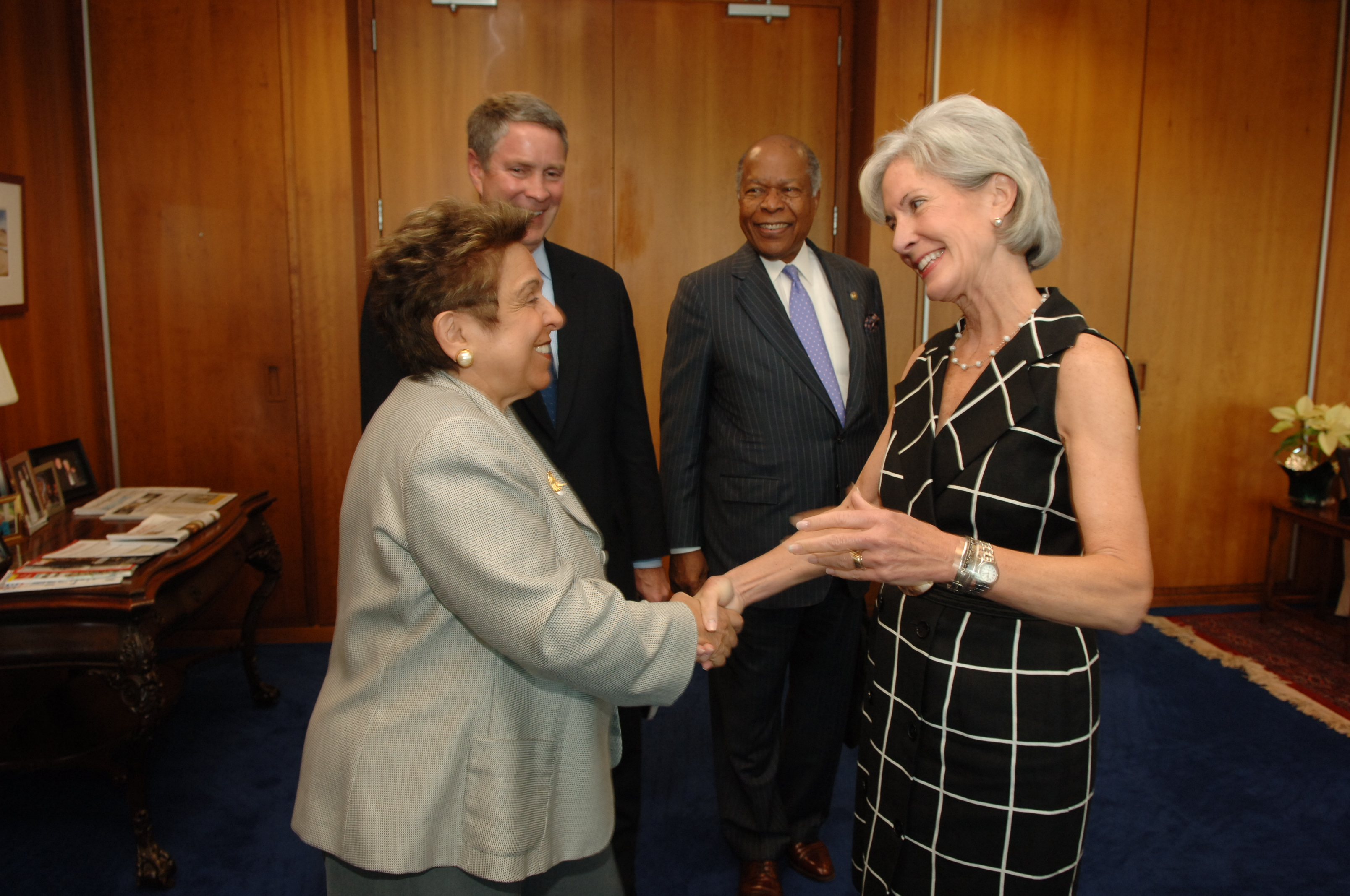 Secretary Sebelius greets former HHS Secretary Donna Shalala, former Senate Majority Leader Bill Frist, and former HHS Secretary Louis Sullivan prior to a bipartisan health reform implementation meeting in Washington, D.C. HHS photo by Chris Smith